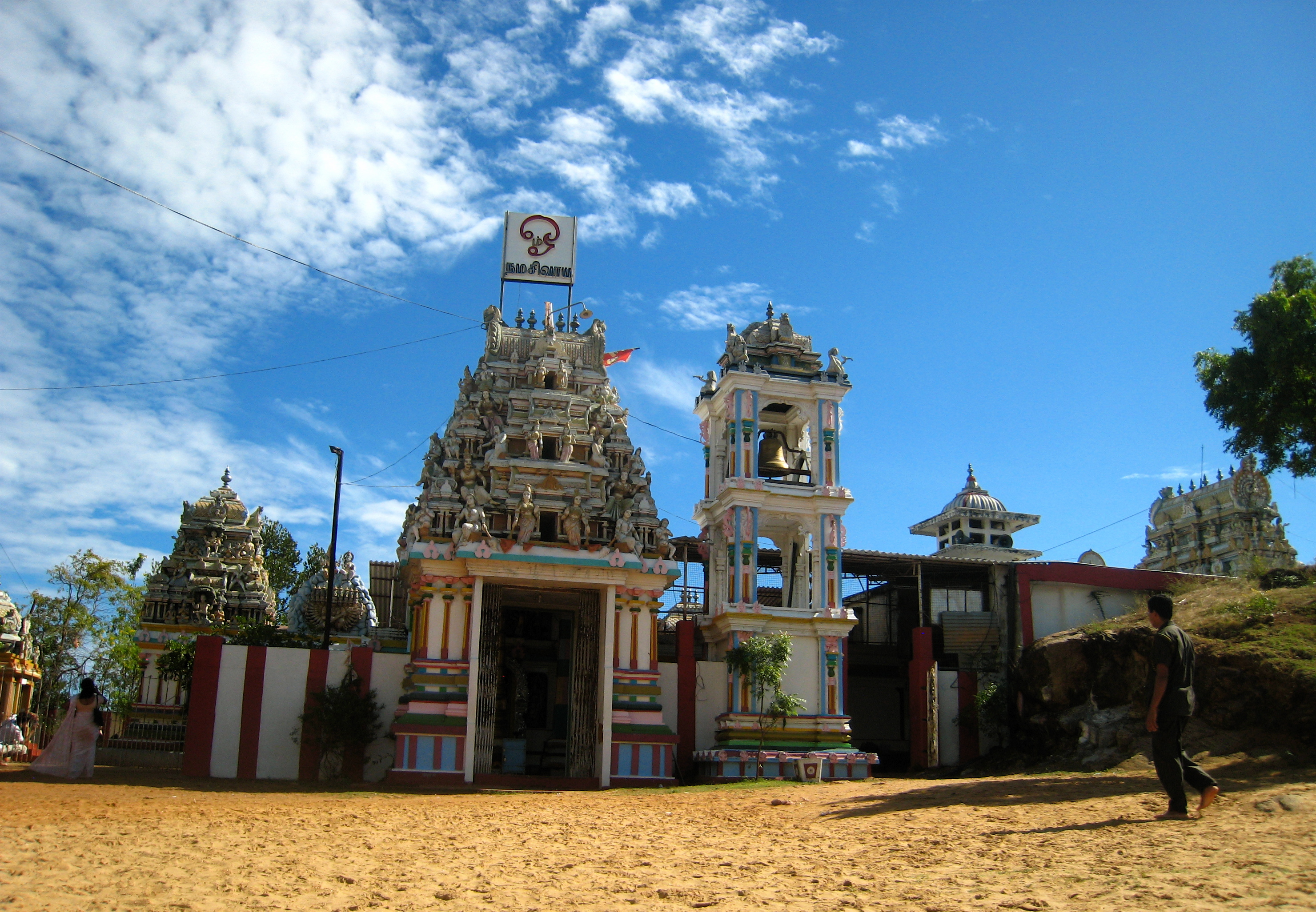 Koneswaram temple, Trincomalee